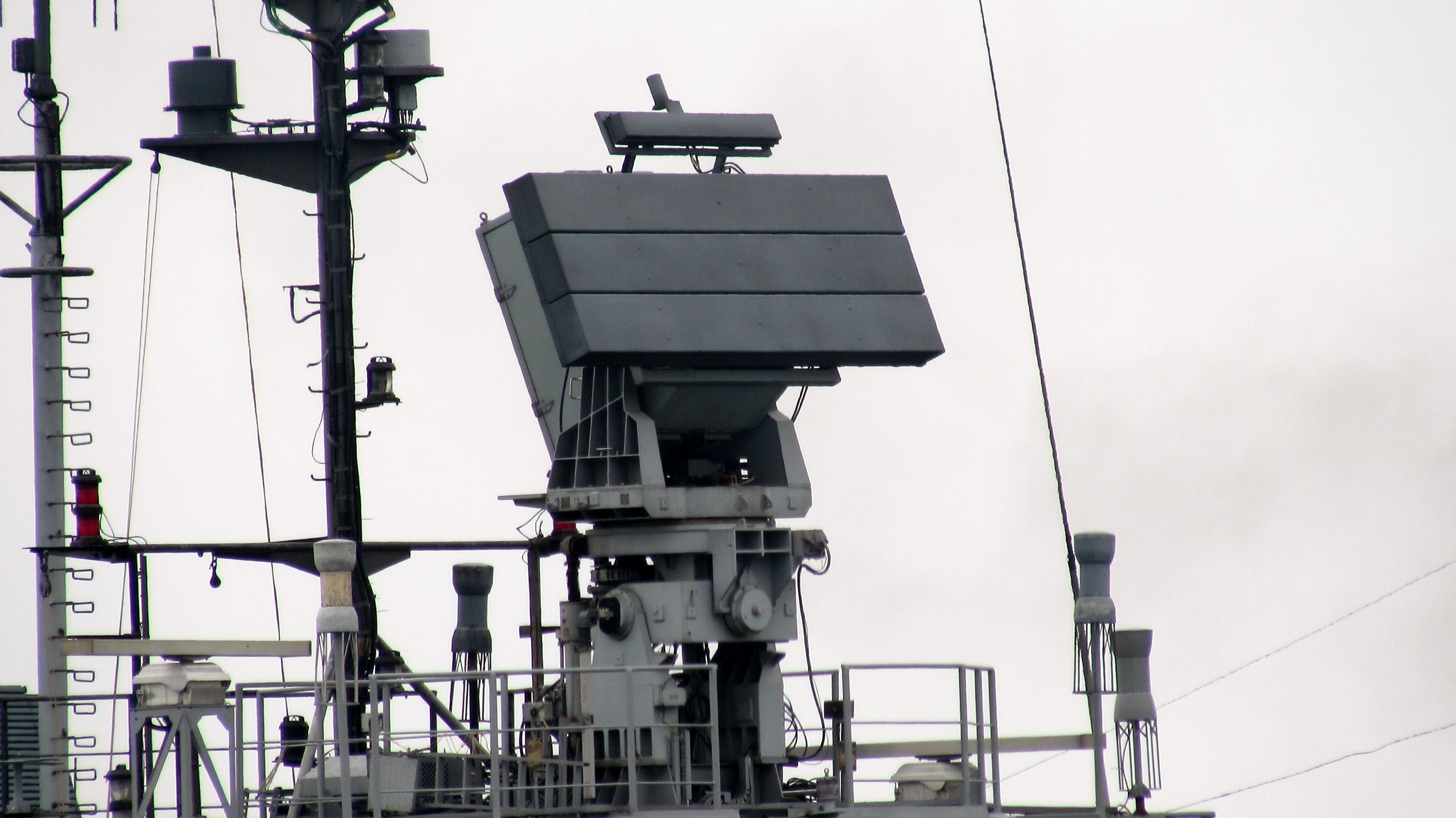 A front view of the Revathi 3D Air and Search Radar of the INS Kadmatt (P-29), a Kamorta class Corvette of the Indian Navy. Photo taken at the Manila South Harbor.